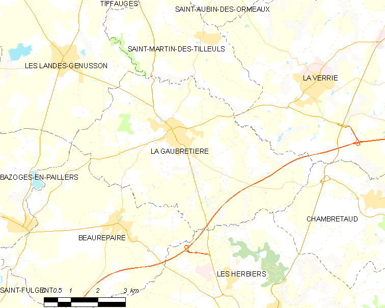 Map of French municipality La Gaubretière